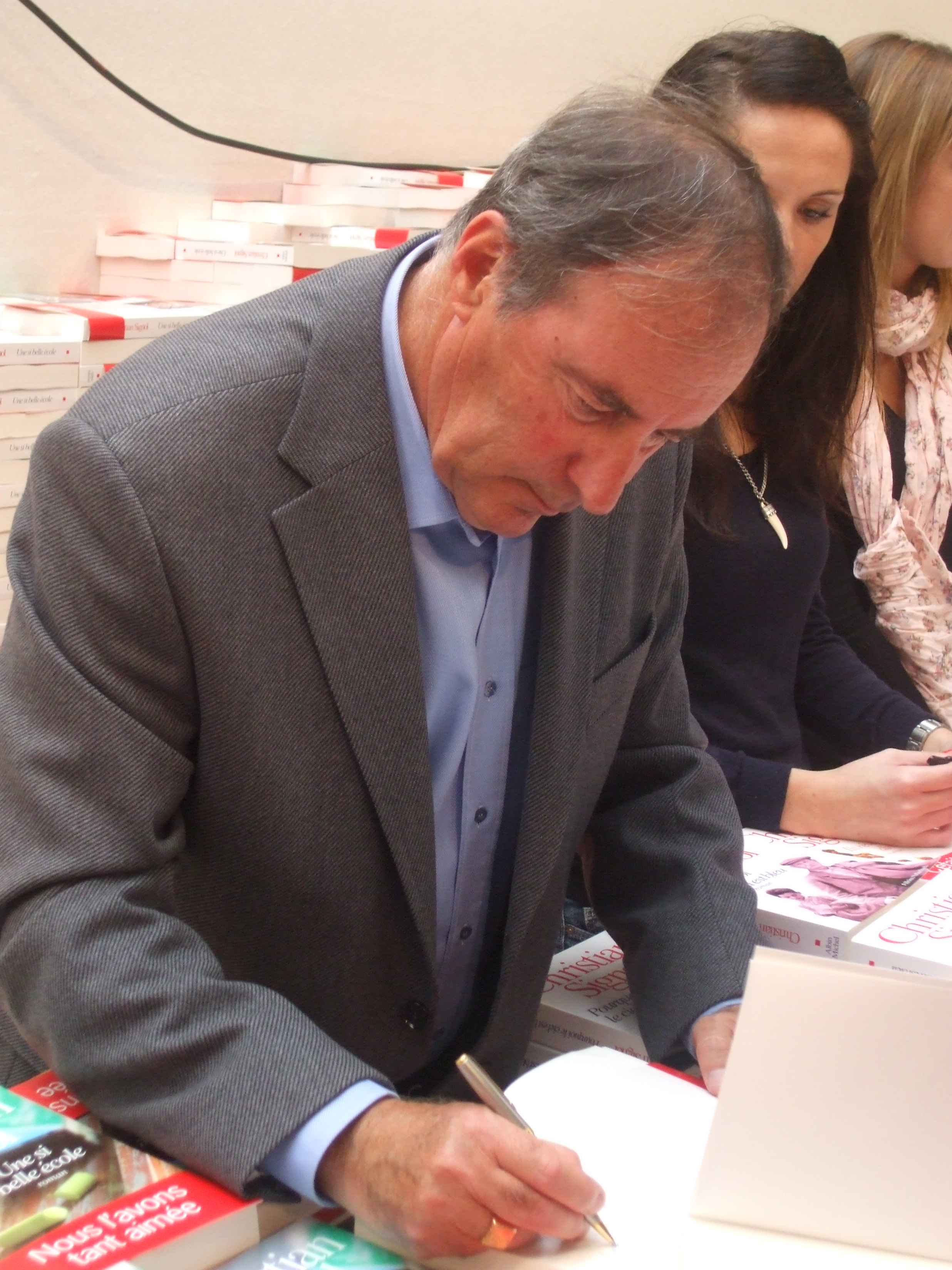 Christian Signol, french writer, Brive la Gaillarde book fair, France, 2010 11 05